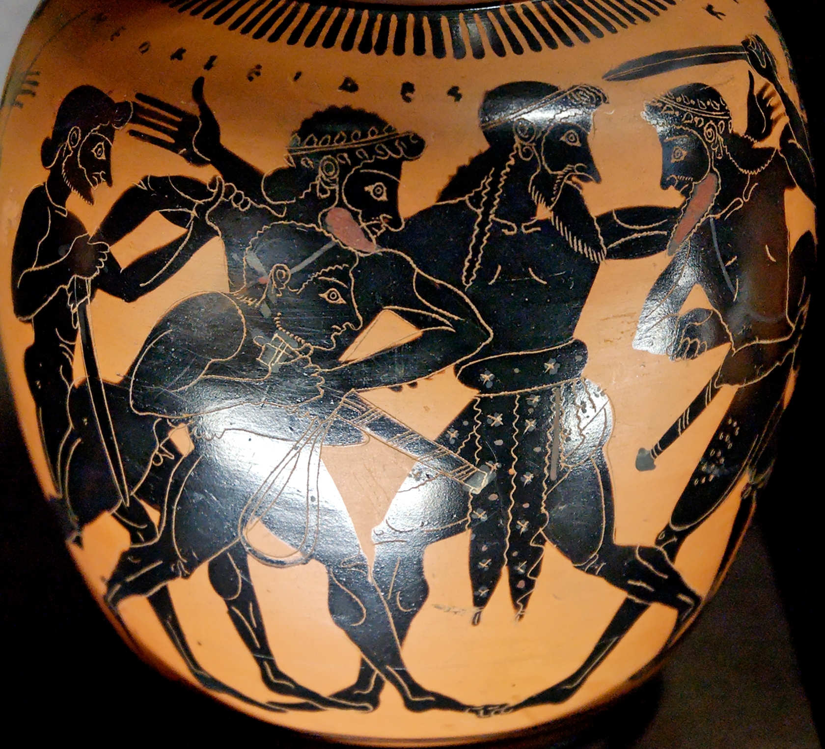 Dispute between Ajax and Odysseus for Achilles' armour. Attic black-figure oinochoe, ca. 520 BC. Kalos inscription.